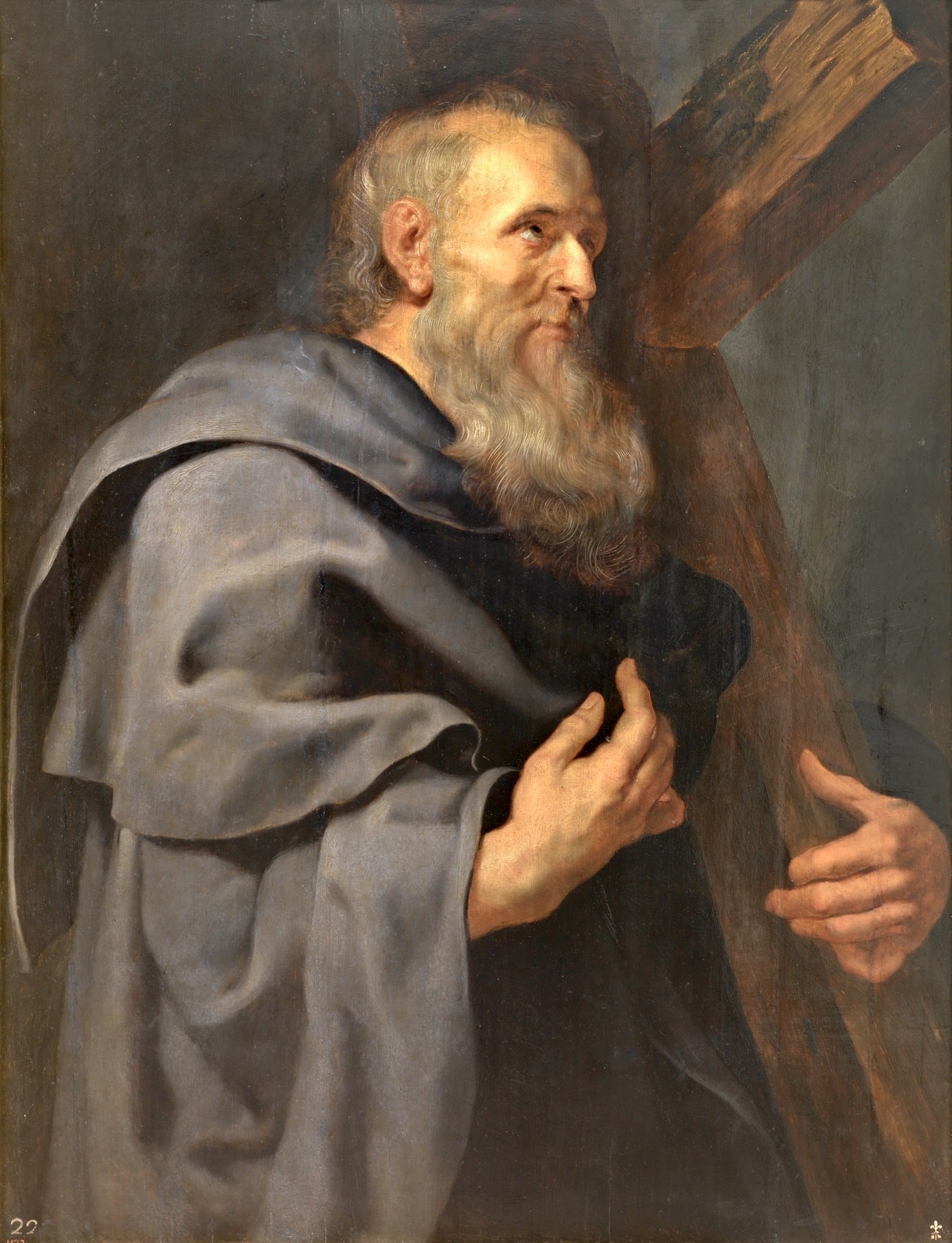 From Rubens' famous Apostle Series